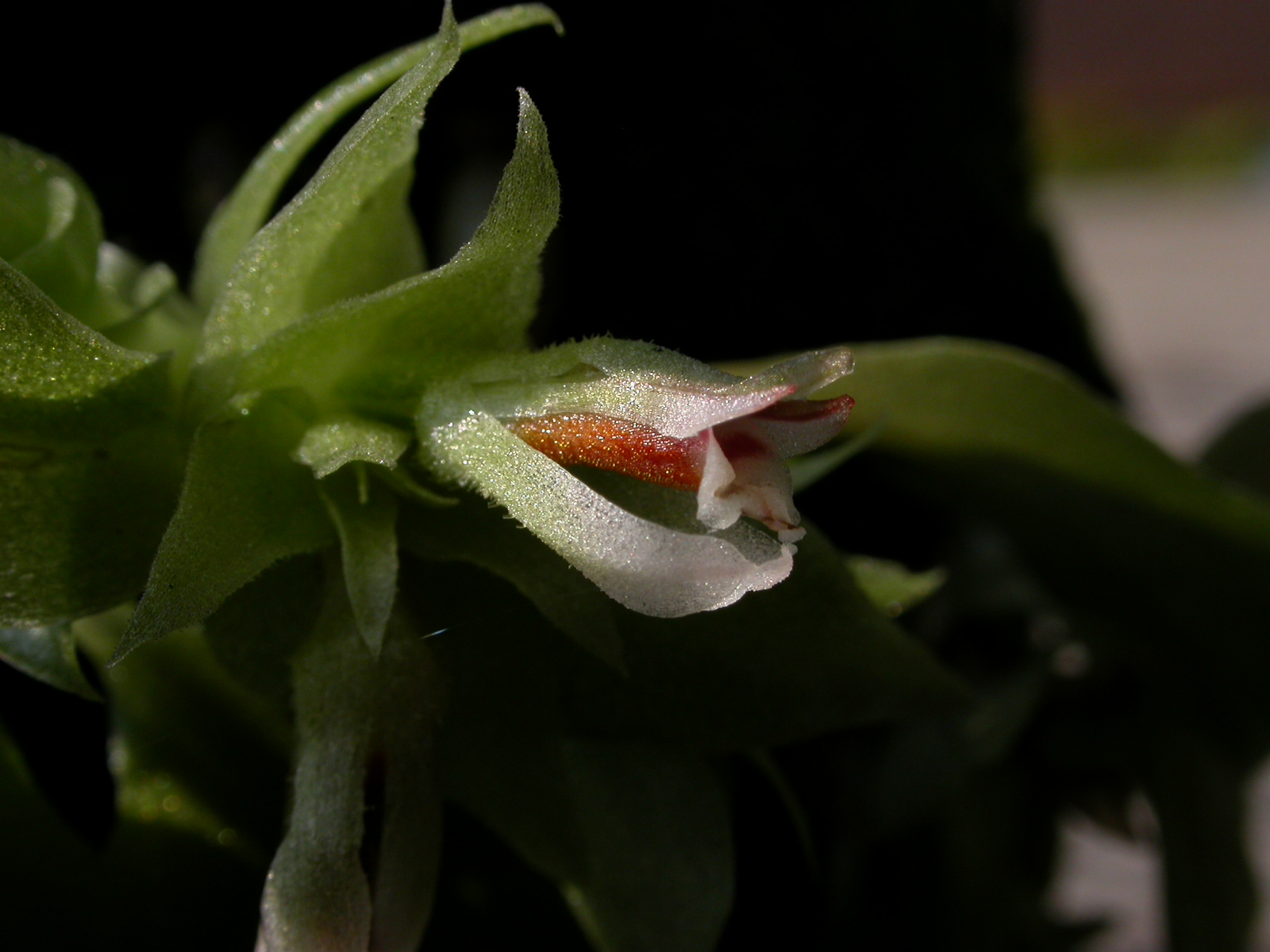 Eurystyles lorenzii